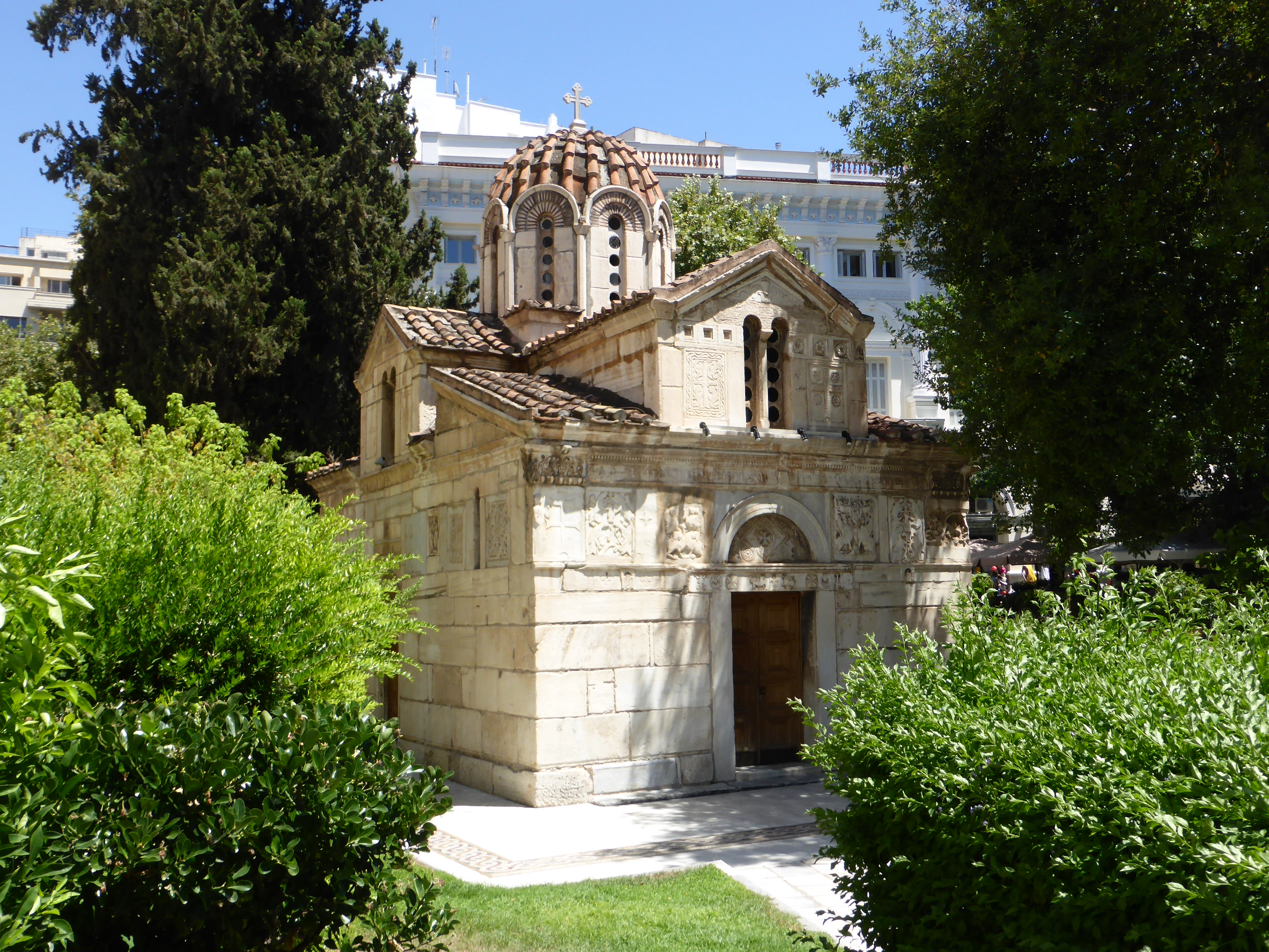 Church Panagia Gorgoepikoos, Athens